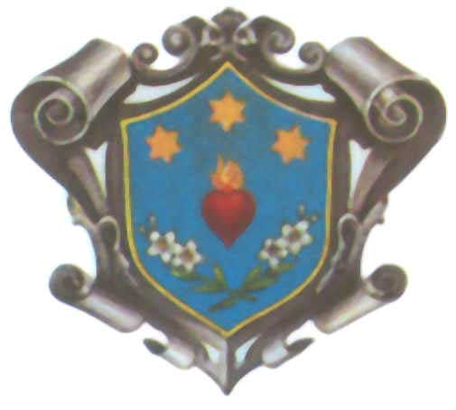 Congregation of the Oratory of St. Philip Neri emblem, from a 19th cent. print